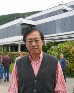 Chinese computer scientist Andrew Yao in 2005.